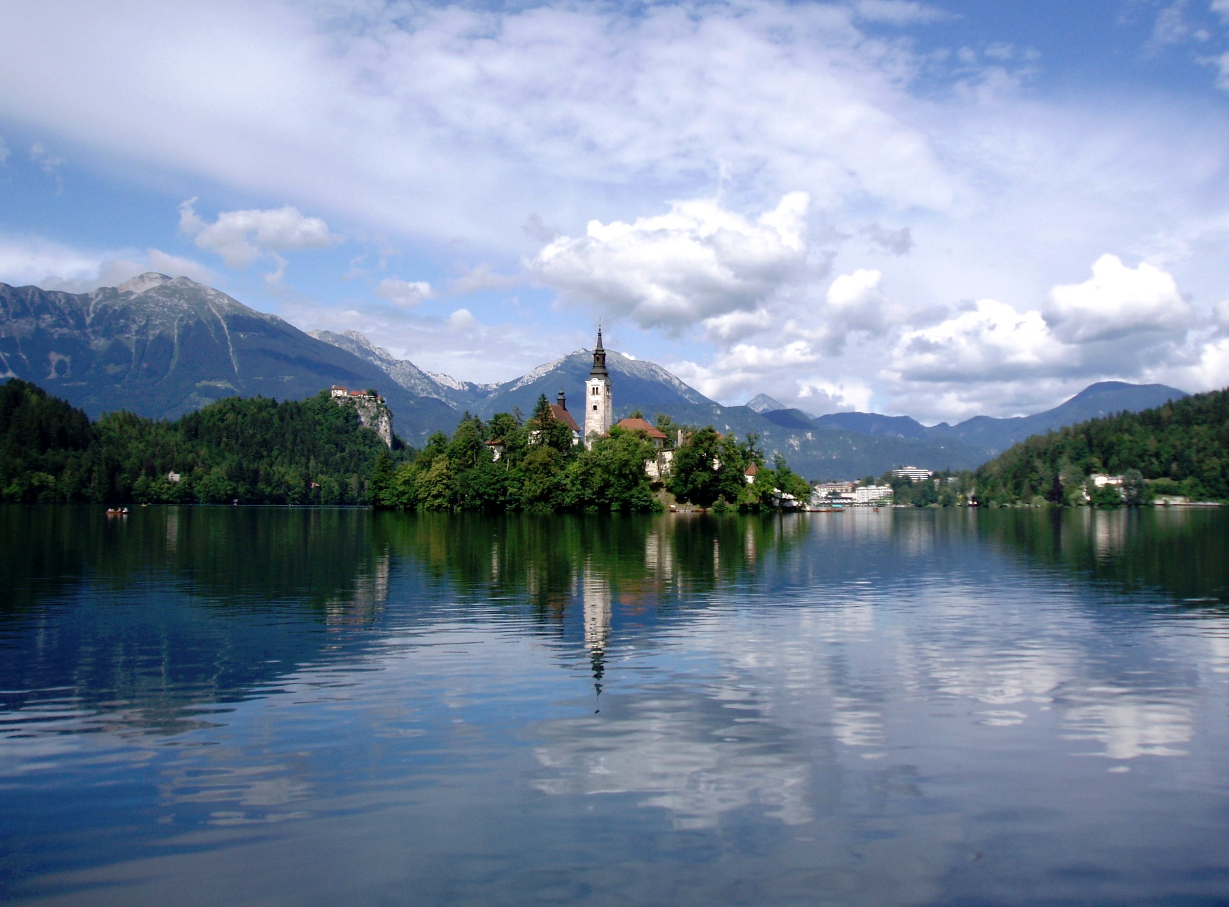 Lake Bled, Slovenia, July 2005